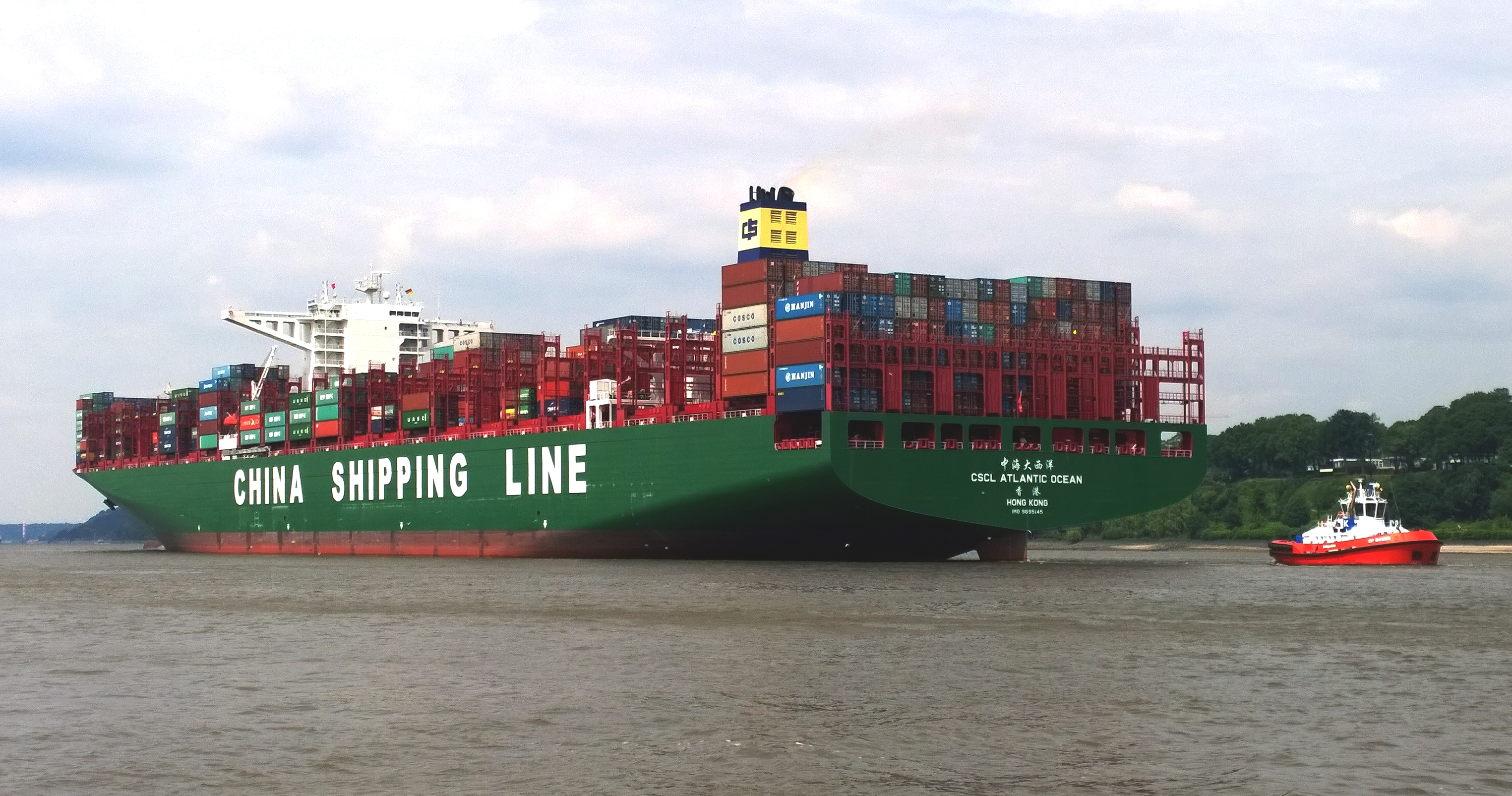 Containership CSCL Atlantic Ocean with stern tug Kotug ZP Boxer on the way down the river Elbe in June 2015